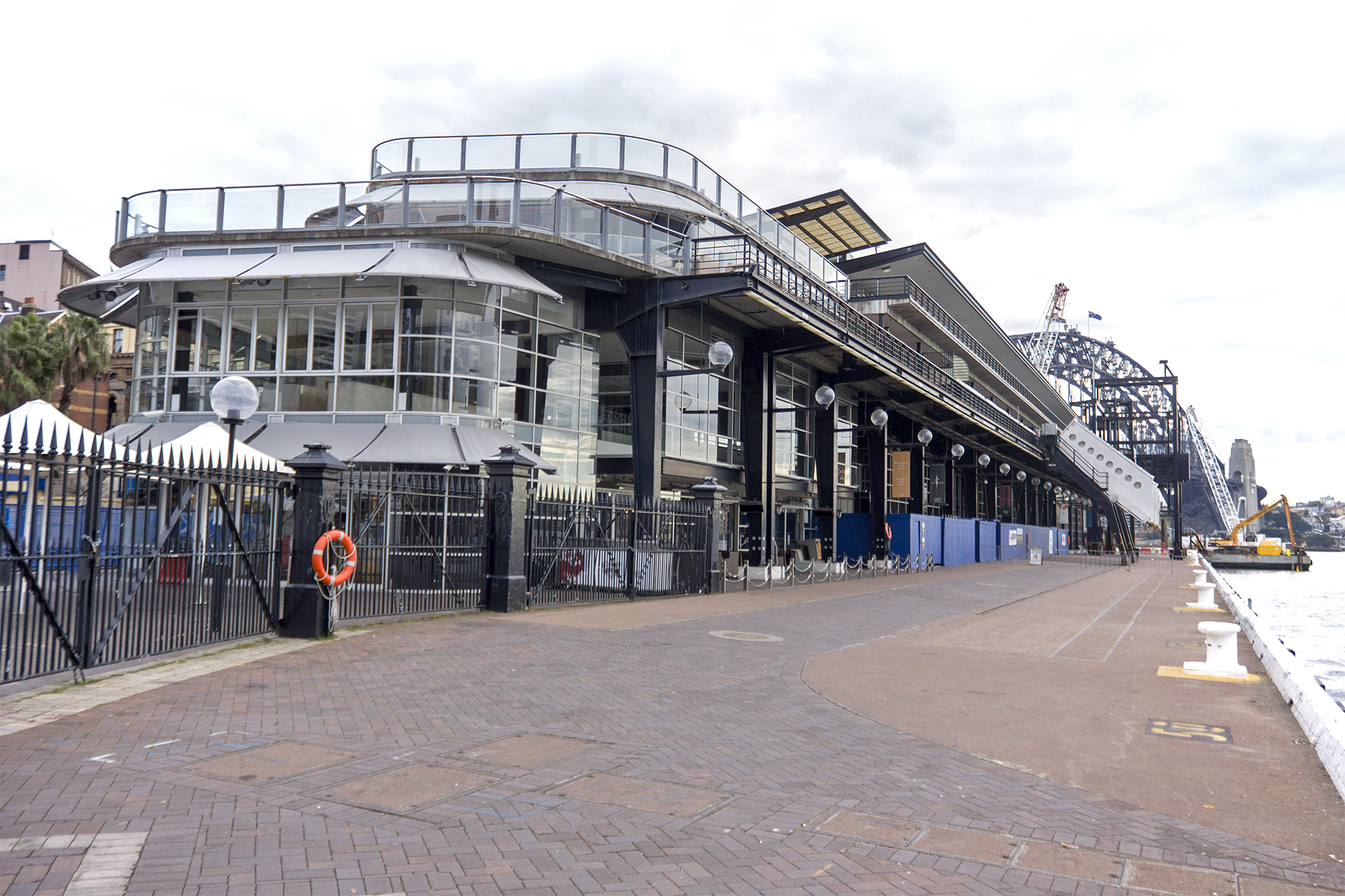 Overseas Passenger Terminal at The Rocks, New South Wales.